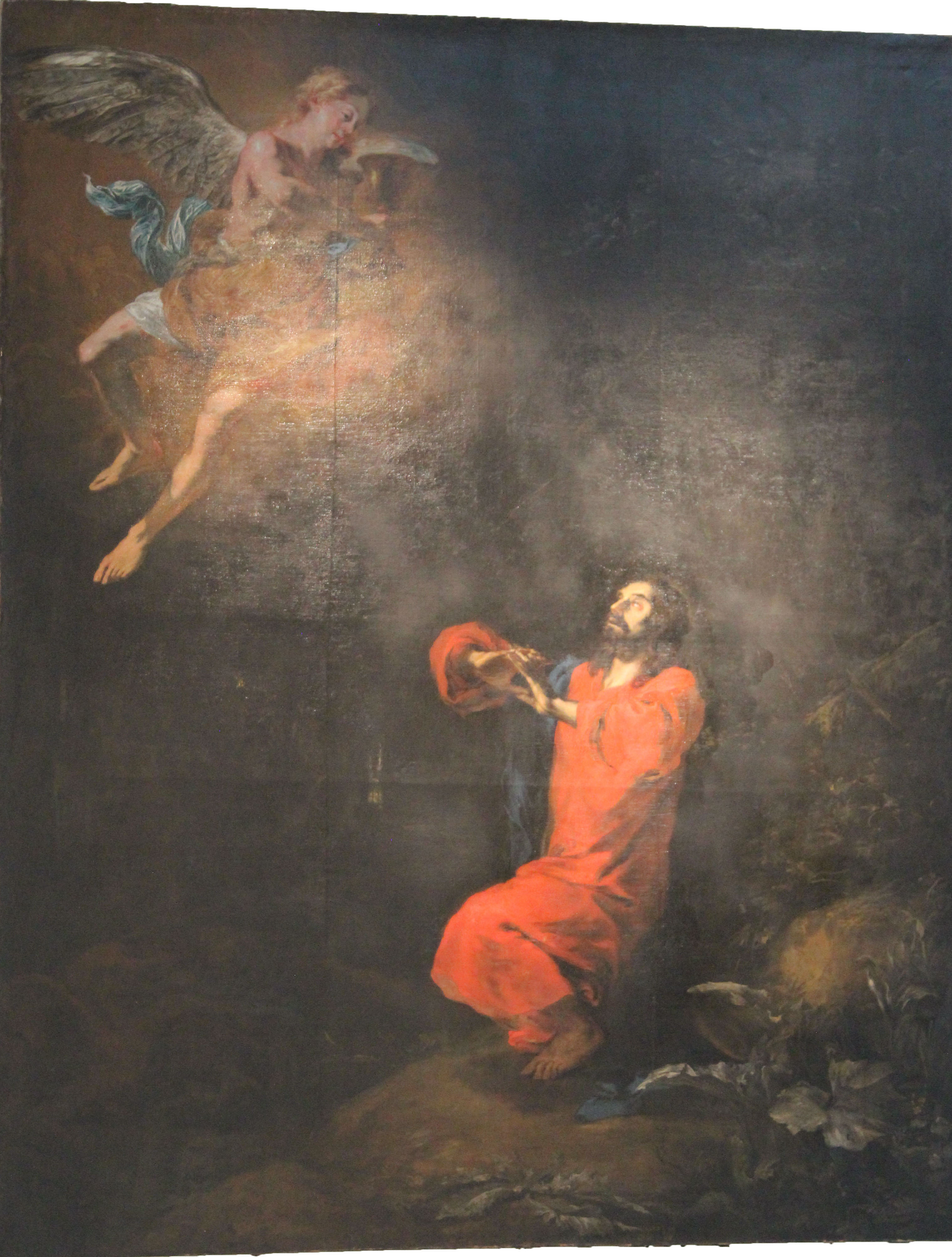 Michael Willman The Agony in the Garden (circa 1661) from Stigmata of St. Francis of Assisi church (originally in Cistercian monastic church Lubiąż Abbey).